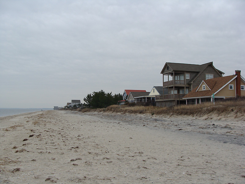 Broadkill Beach shorefront in winter 2009